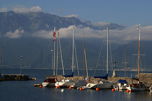 Marina of La Tour-de-Peilz at Lake Geneva